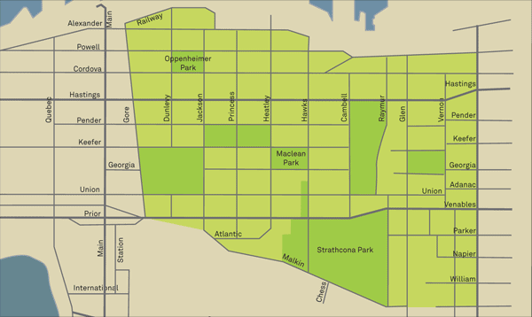 Geographical boundaries of Vancouver's Strathcona Neighbourhood.